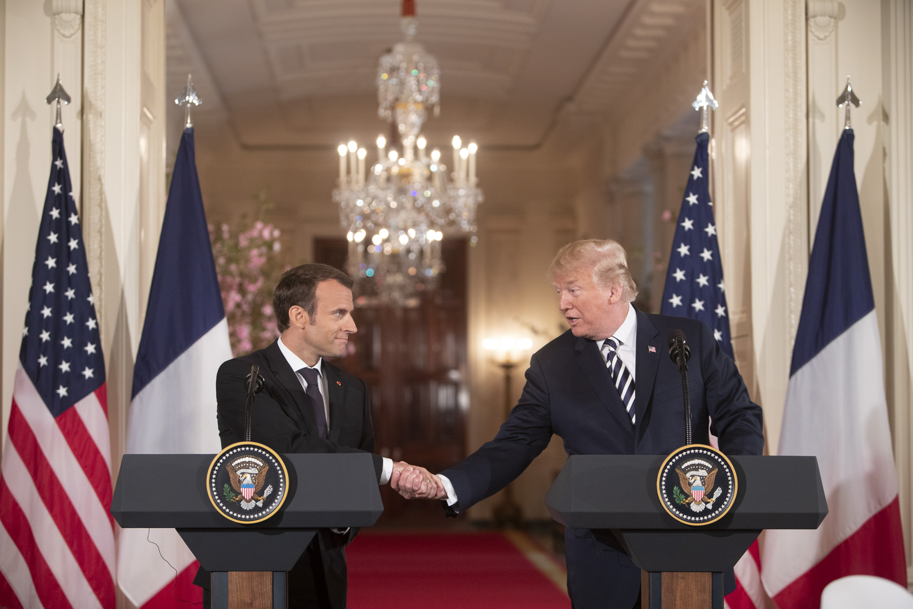 President Trump holds a joint press availability with the President of France (Official White House Photo by Joyce N. Boghosian)